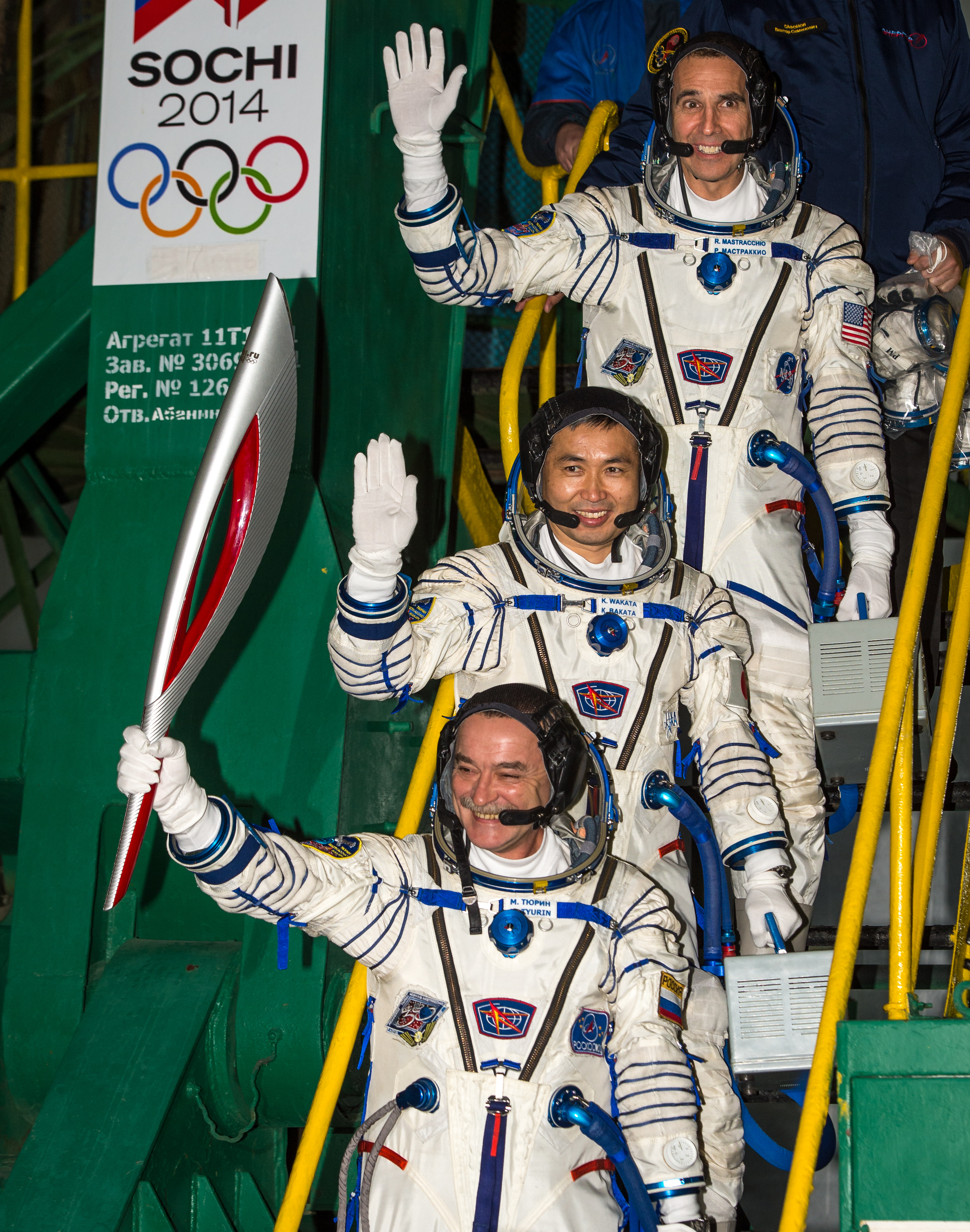 Expedition 38 Soyuz Commander Mikhail Tyurin of Roscosmos, holding the Olympic torch, Flight Engineer Koichi Wakata of the Japan Aerospace Exploration Agency, and, Flight Engineer Rick Mastracchio of NASA top, wave farewell prior to boarding the Soyuz TMA-11M rocket for launch, Thursday, Nov. 7, 2013, at the Baikonur Cosmodrome in Kazakhstan. The Olympic torch has a four-day visit to the International Space Station. Tyurin, Mastracchio, and, Wakata will spend the next six months aboard the International Space Station.